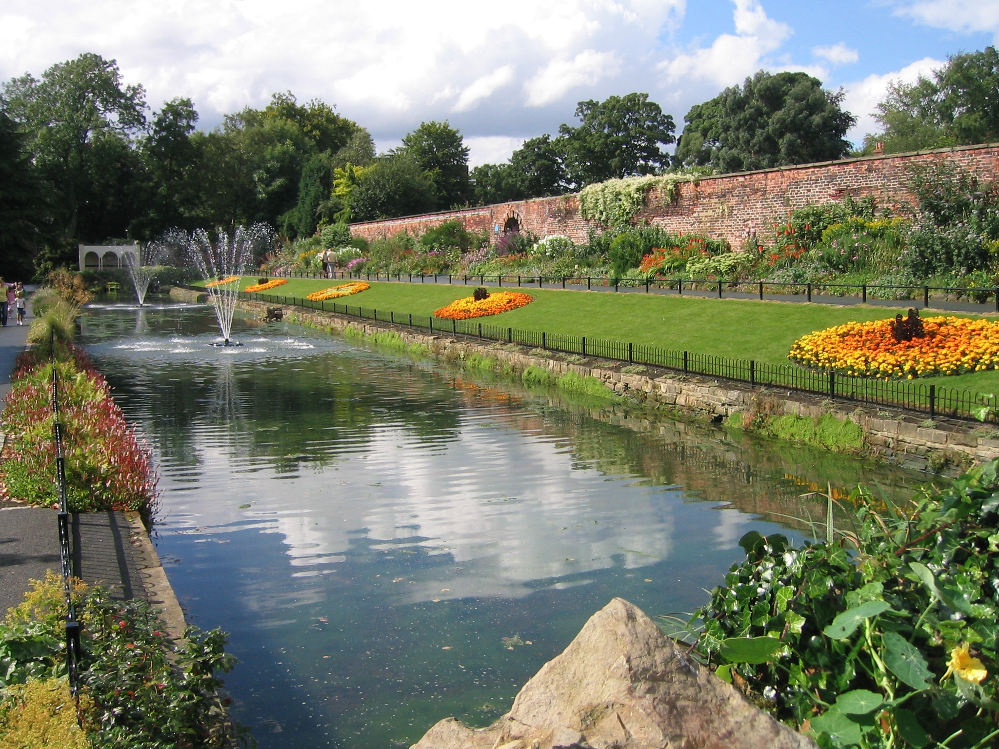 Canal Gardens, in Roundhay Park Leeds (Compare to File:Canal Gardens, Roundhay (30th January 2010) 004.jpg as it appears in the winter, Mtaylor848 (talk) 14:18, 20 September 2010 (UTC))